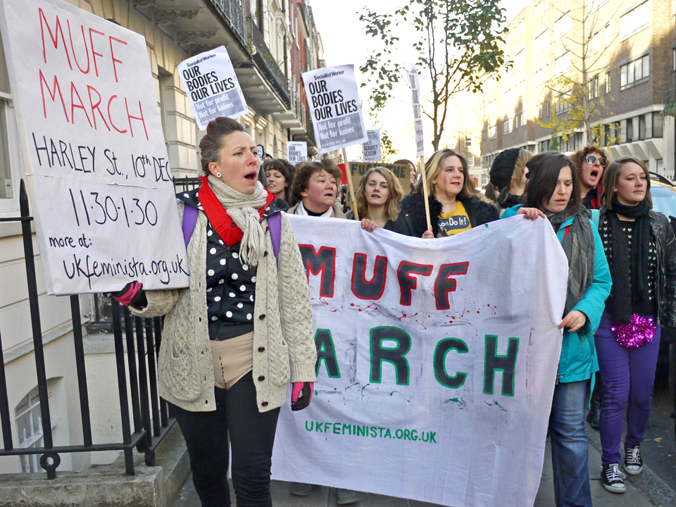 .uk/events/event/muff-march/